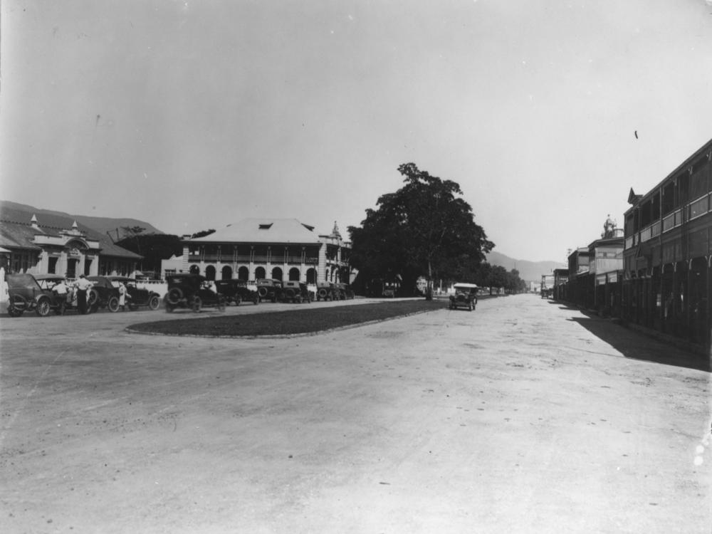 Looking south-east along Abbott Street, Cairns, ca. 1925. Intersection of Abbott and Shields reproduced from a glass negative, no. 123. (Description supplied with photograph.).